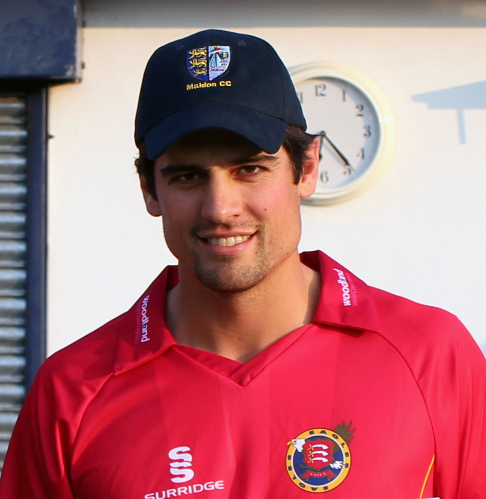 Alastair Cook at the Upminster Cricket Club vs Essex County Cricket Club Benefit Match